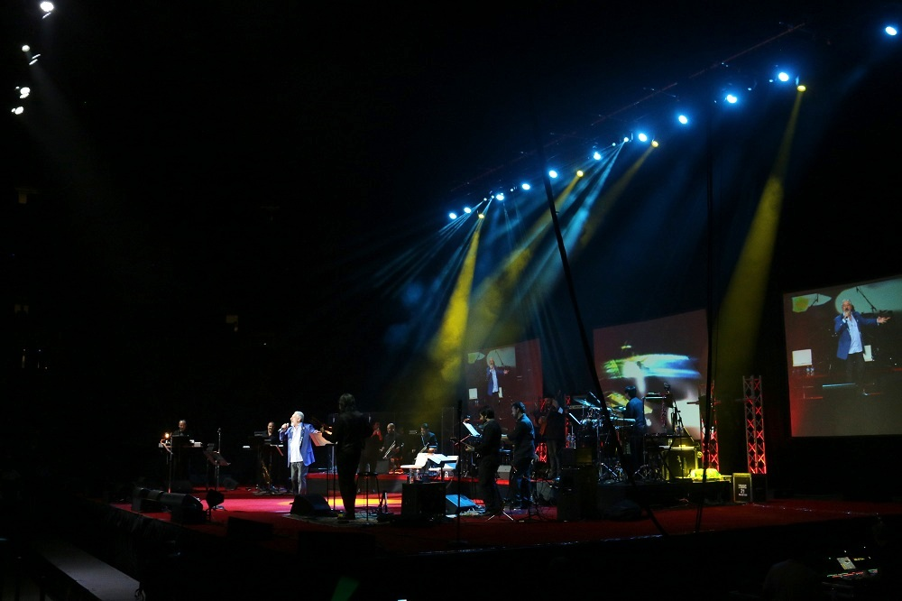 Persian pop star EBI in a concert @ Air Canada Centre, Toronto, Canada, 21 June 2014 - Babak Amini, band leader. Photo: PDN